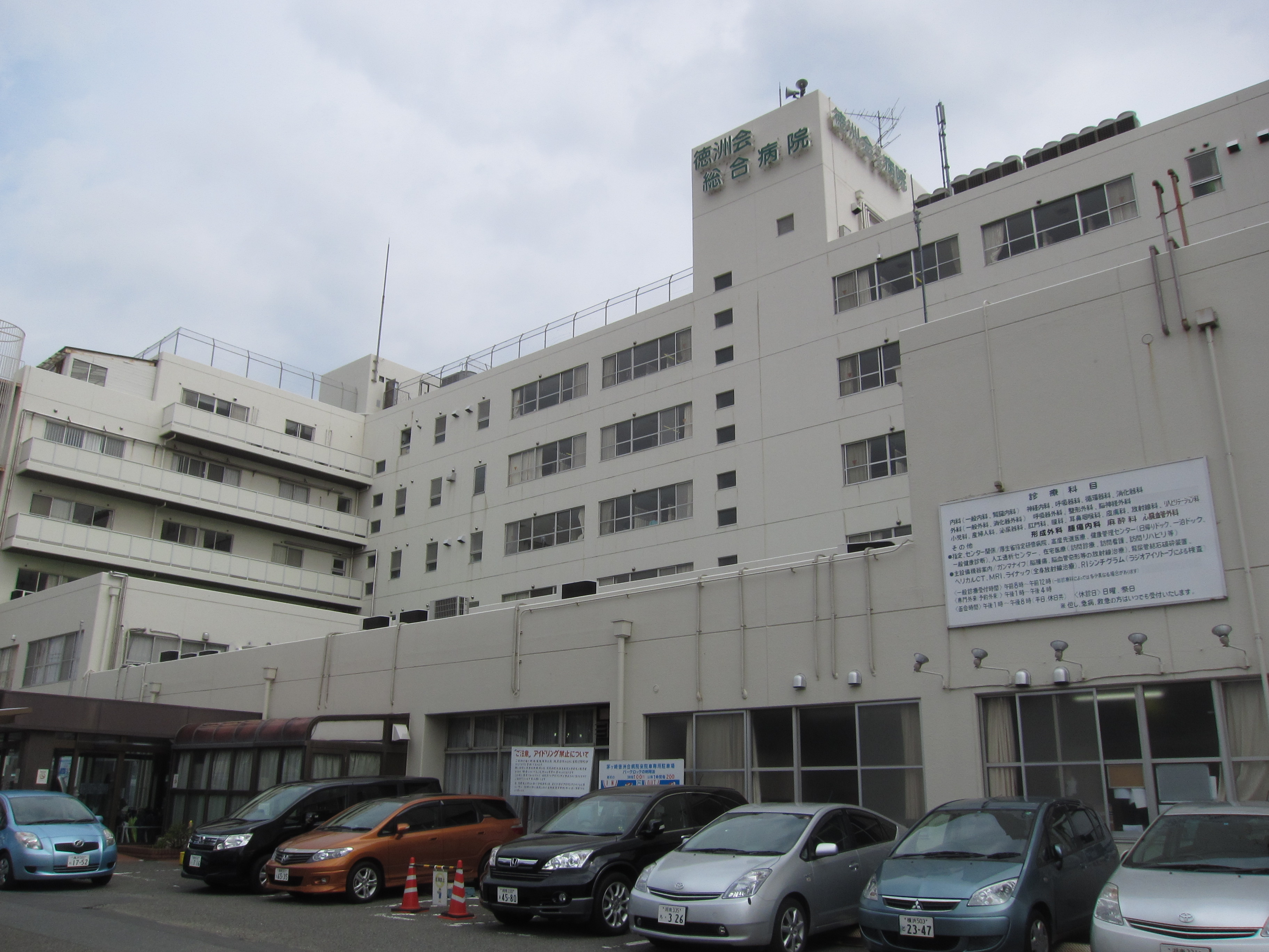 Chigasaki Tokushukai Hospital